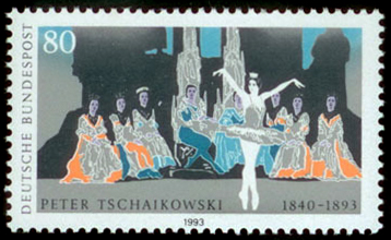 Stamp of Germany "The 100 anniversary from the date of P.I.Tchaikovsky death", 1993